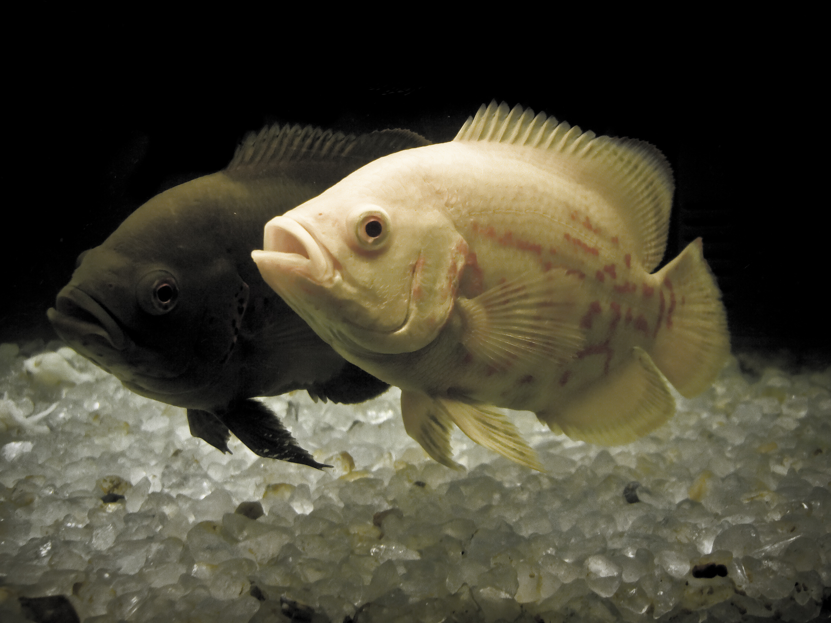 These are my pet Oscars, I call them Othello and Desdemona.